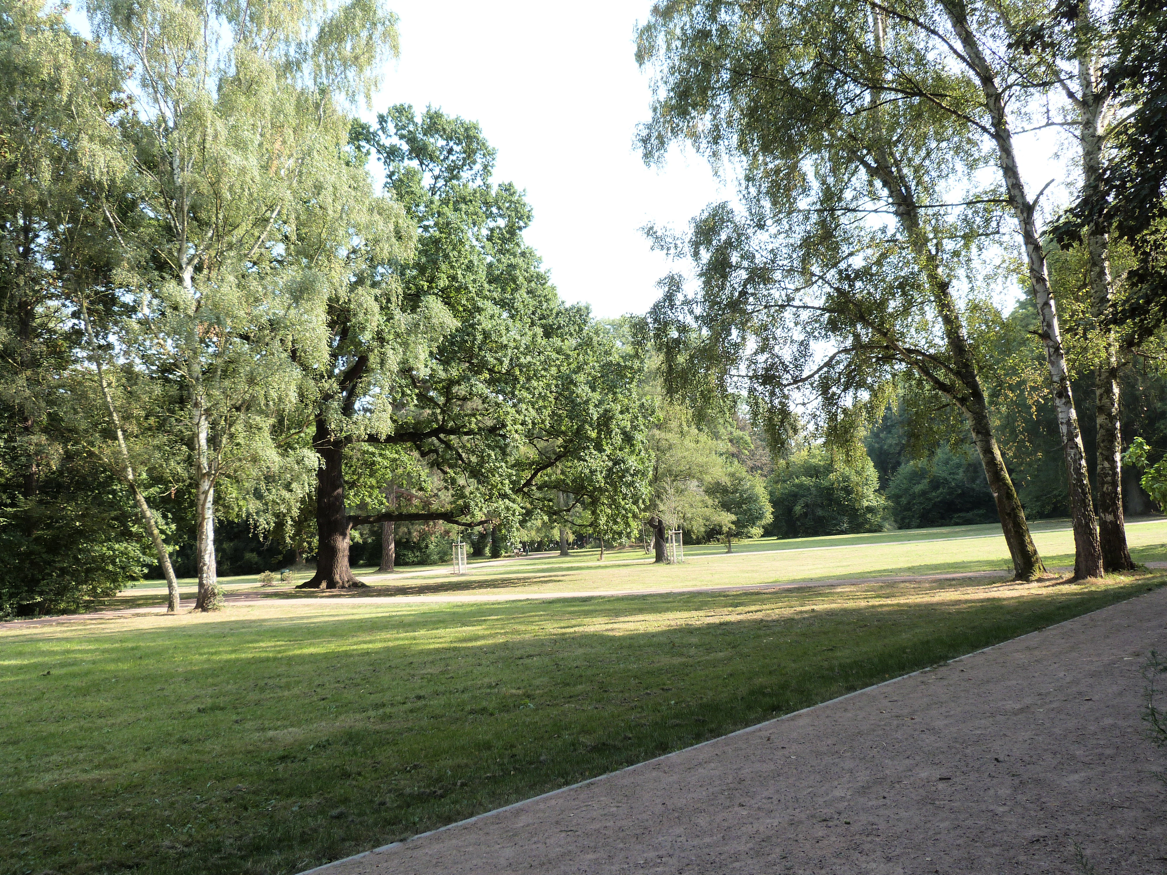 Gimritz park, Halle (Saale), Peißnitzinsel (Peißnitz island)